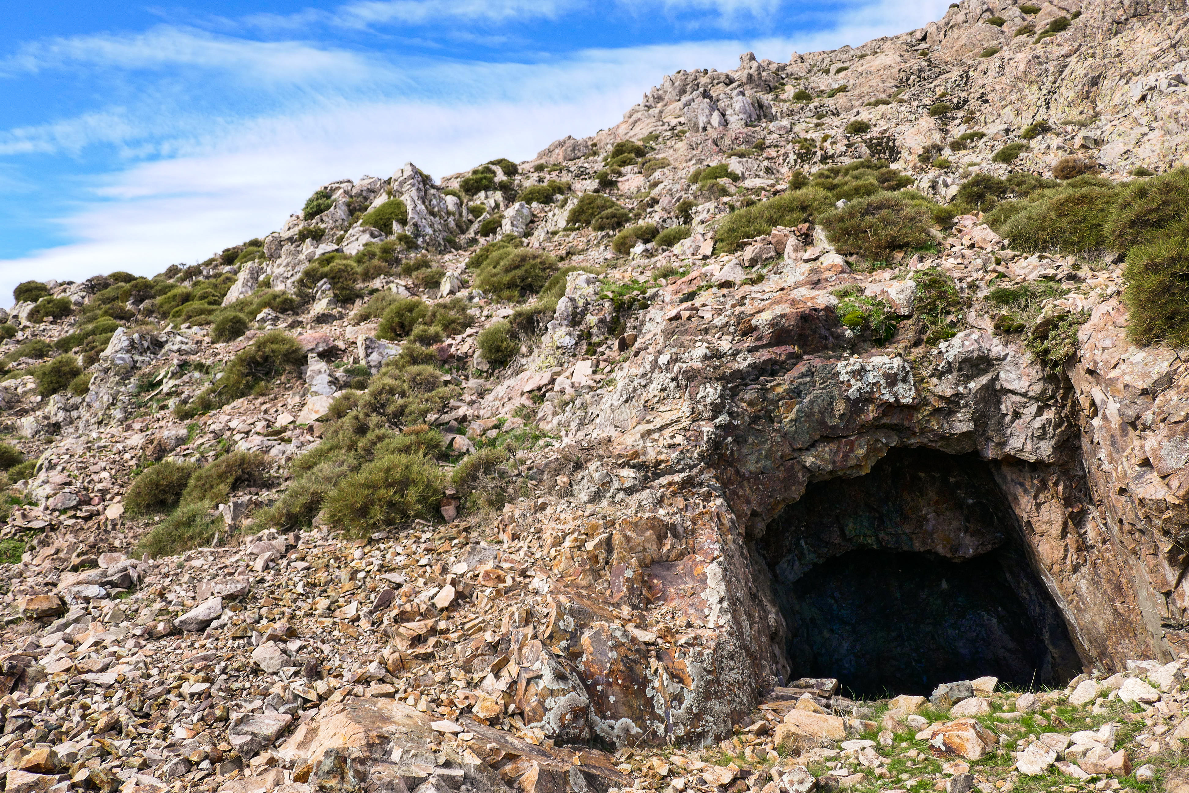 The exploratory adit of Gradi near Marignana (Corsica). This tiny Fe-Cu-Pb-Zn orebody was mined at the turn of the XXth century.